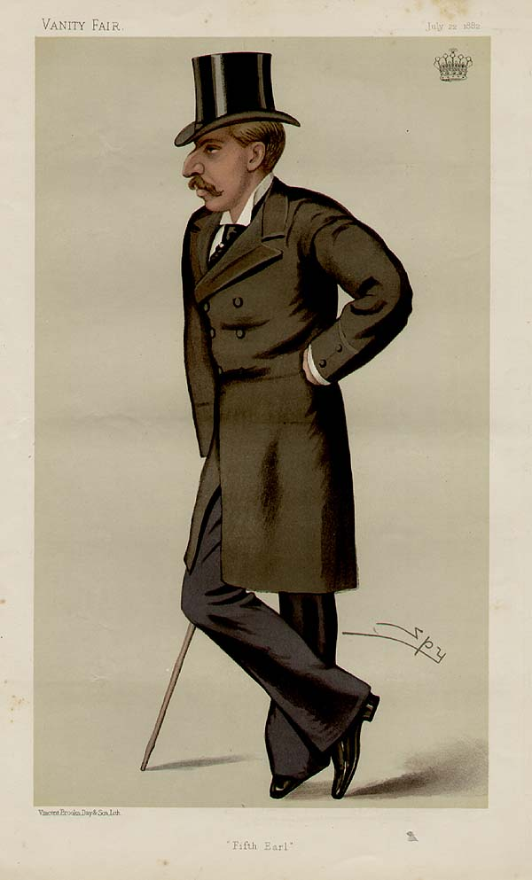 Caricature of Henry Fox-Strangways, 5th Earl of Ilchester. Caption read "Fifth Earl".